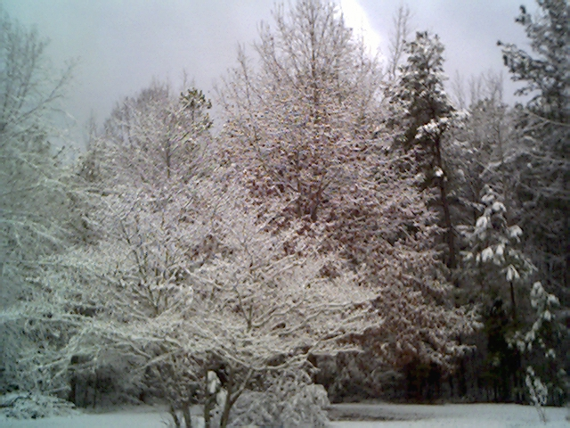 A look out of a typical back door in Winston, Georgia at 7:35a.m. on Sunday, the 26th of December 2010.